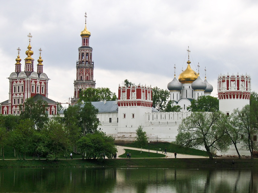 Novodevichy Convent, Moscow